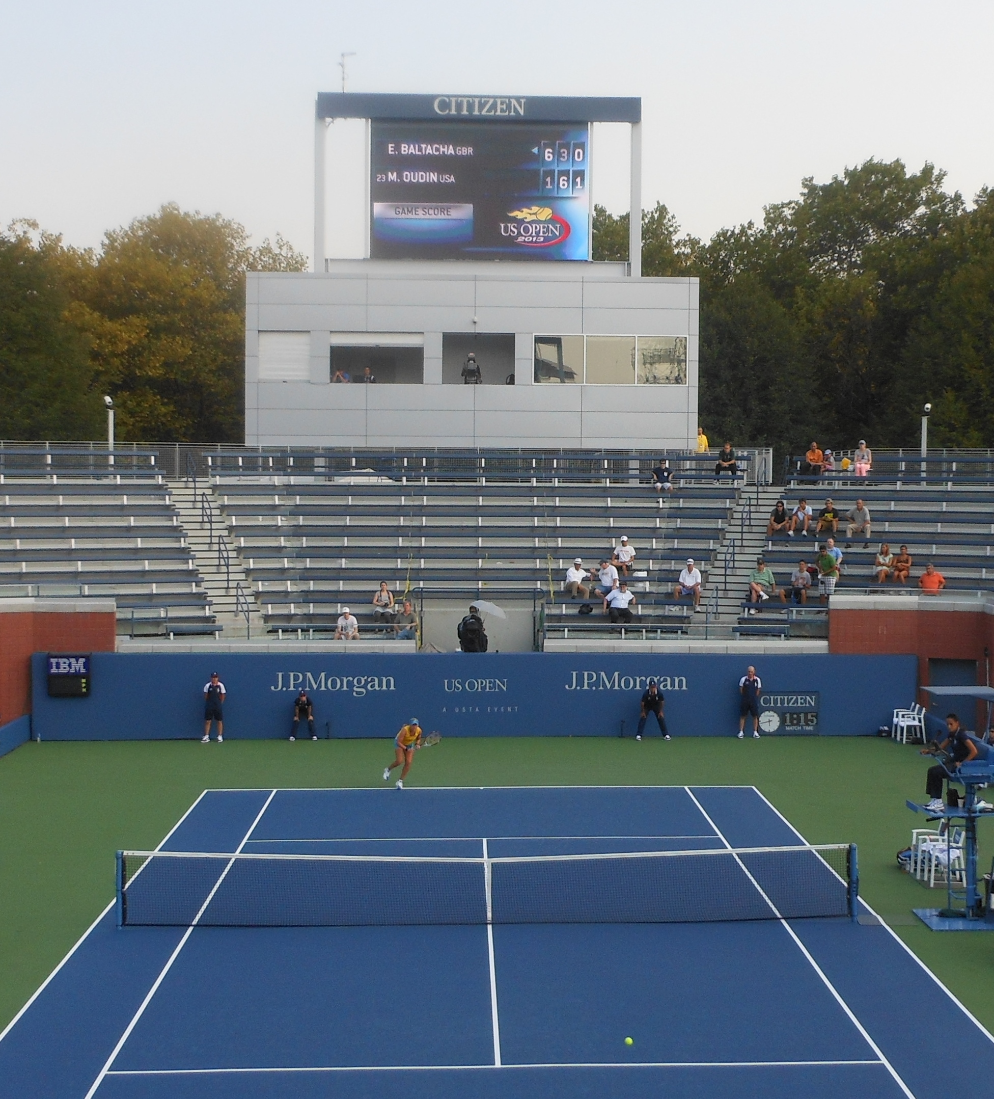 Elena Baltacha playing in the 2013 US Open qualifying round. This was her last grand slam appearance.